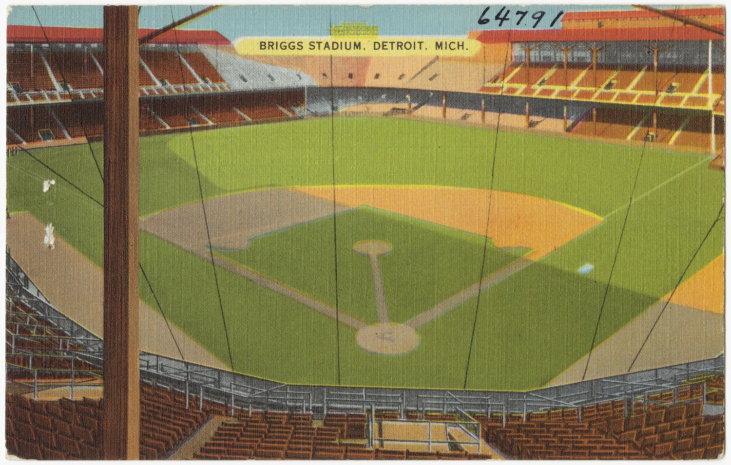 File name: 06_10_014666 Title: Briggs Stadium, Detroit, Mich. Date issued: 1930 - 1945 (approximate) Physical description: 1 print (postcard) : linen texture, color ; 3 1/2 x 5 1/2 in. Genre: Postcards Subject: Stadiums Notes: Title from item. Collection: The Tichnor Brothers Collection Location: Boston Public Library, Print Department Rights: No known restrictions